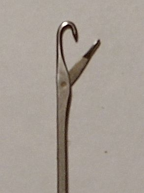 Latch needle